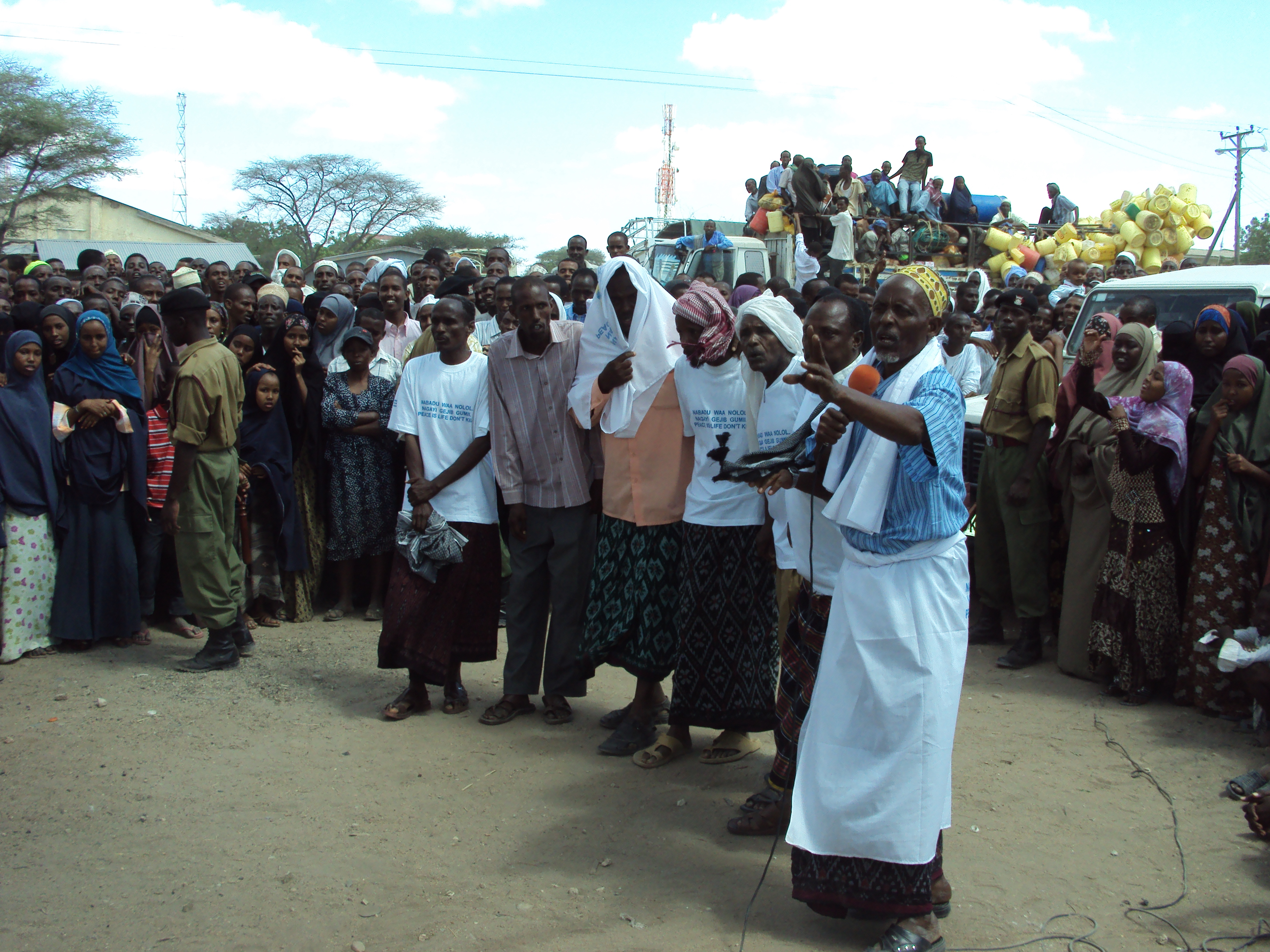 Kenya Pastoralist Journalist Network used peace education initiatives on radio and in communal activities to facilitate and promote inter-community dialogue, trauma-healing sessions, and sensitisation to elements that create conflict (such as illicit arms, cattle rustling and resource competition). It trained 30 leaders of different women groups, 30 rehabilitated ex-combatants, and 30 opinion leaders from different clans in conflict-resolution and peace-building. In addition, two successful meetings took place involving ex-combatants, government officials and women peace-builders that formed a stakeholder umbrella body known as the Northern Kenya Peace Network.